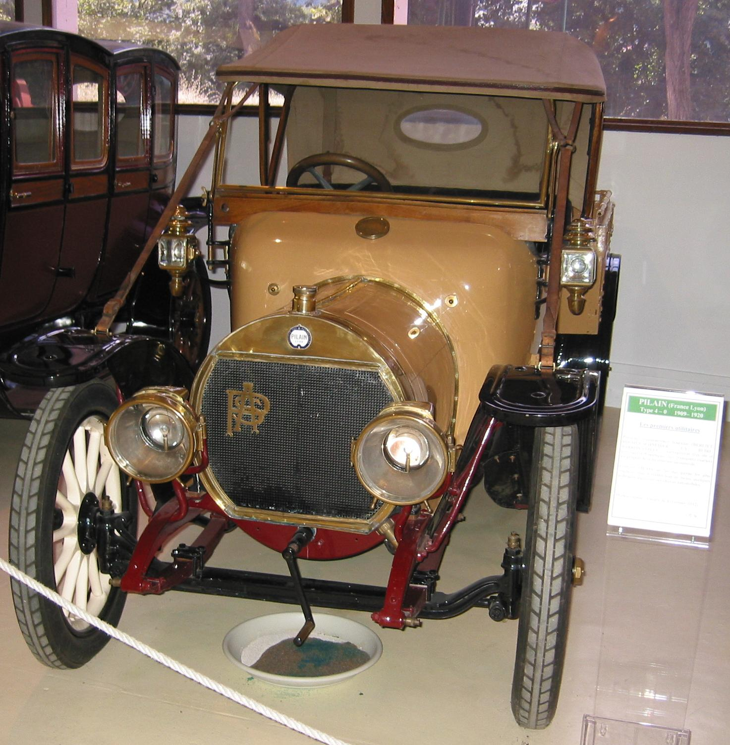 Pilain 1912 (Country of origin: France)